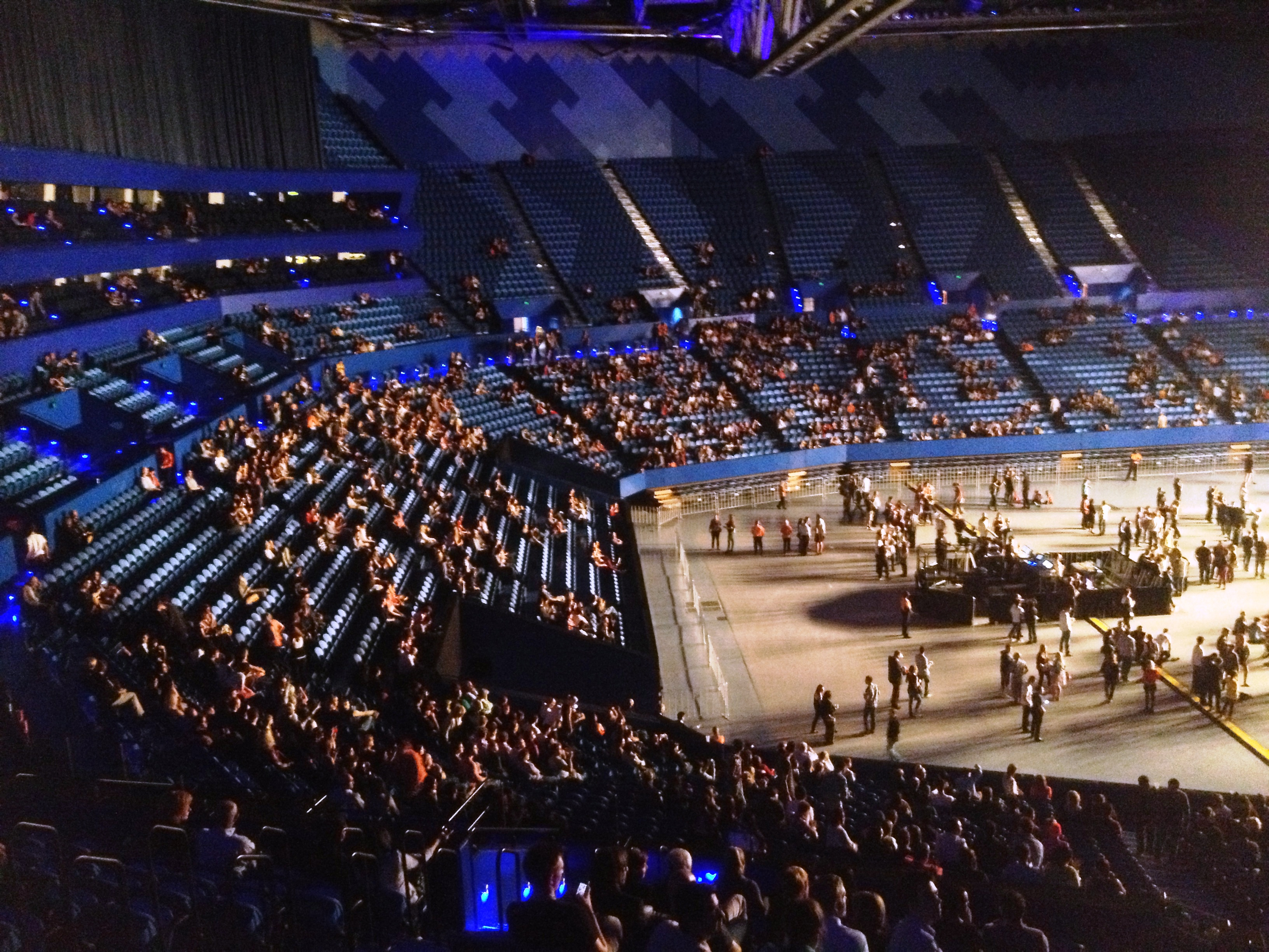 Perth Arena